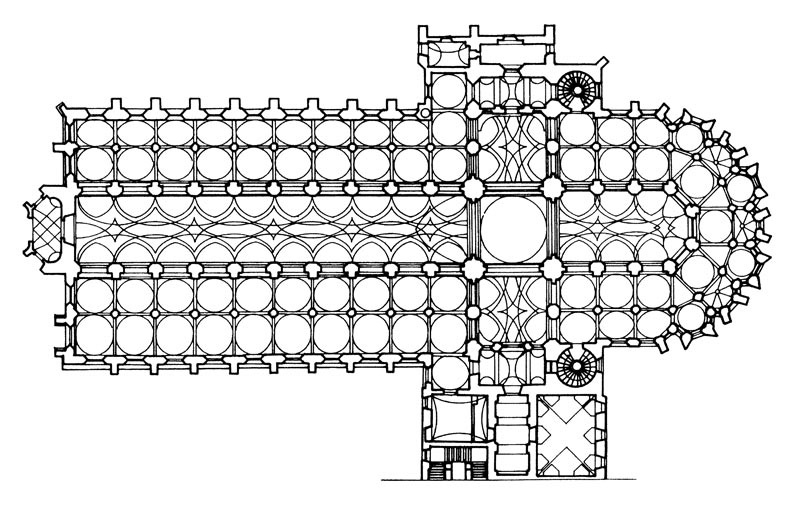 Ground plan of Church of Monastery Church of the Assumption of Virgin Mary and St John the Baptist in Sedlec u Kutné Hory by Jan Santini Aichel